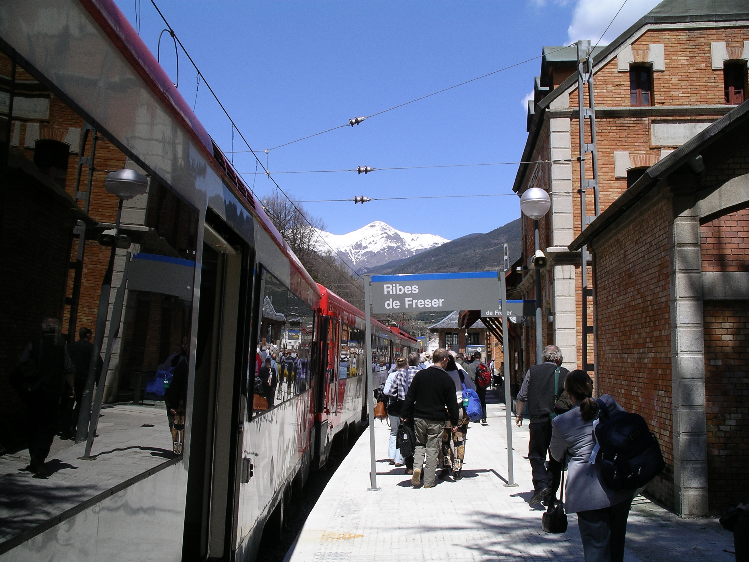 Railway station of Ribes de Freser in Catalonia, Spain. Located in the Pyrénées, 14 km north of Ripoll at Vall de Núria Rack Railway.